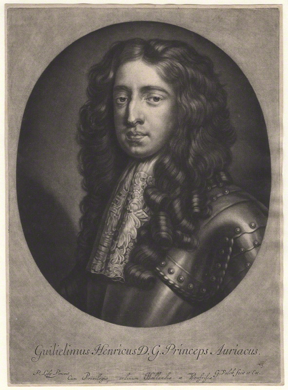 Mezzotint of King William III by Gerard Valck, after Sir Peter Lely